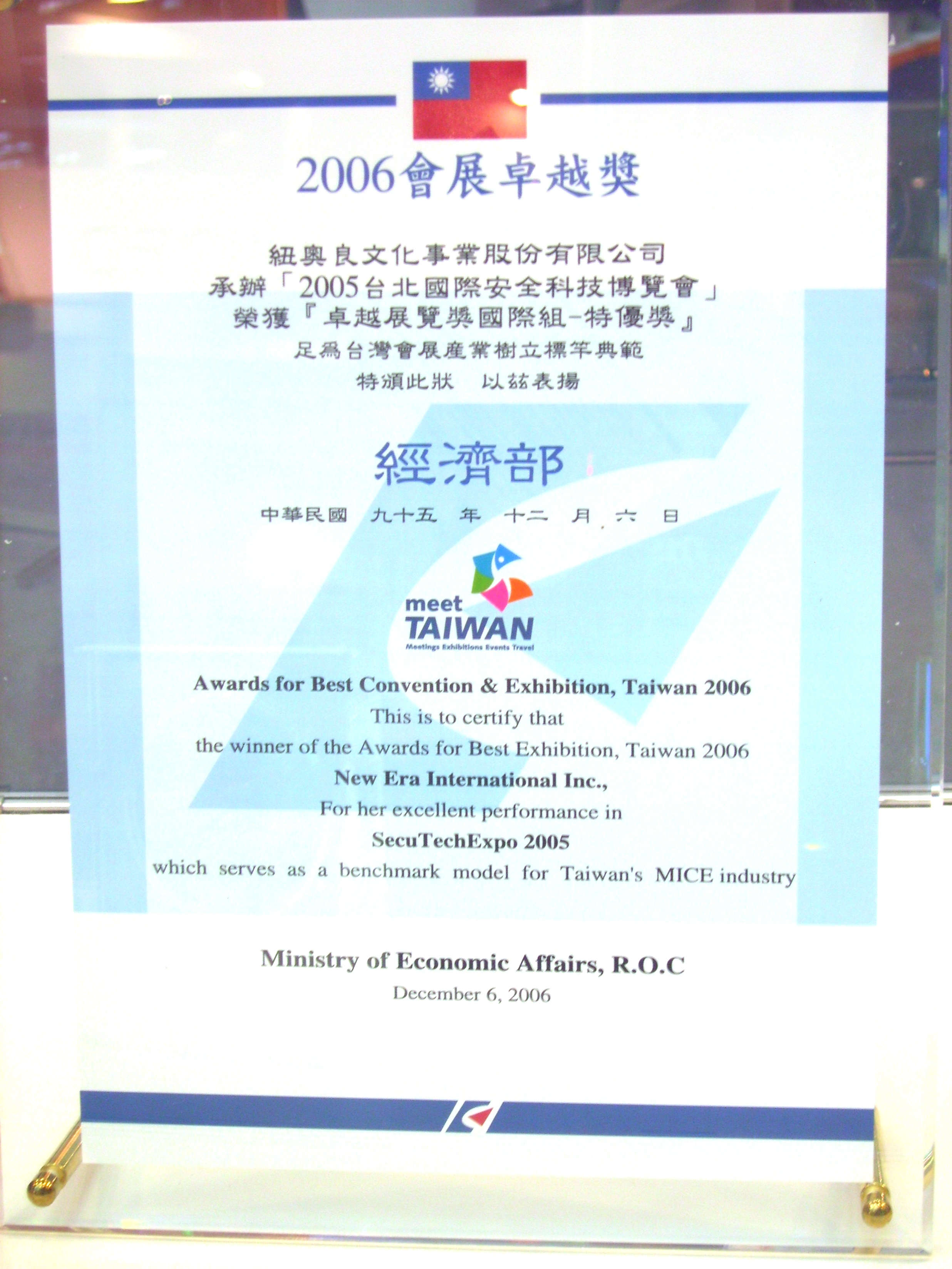 SecuTech Expo 2005 won the 2nd Awards for Best Covention and Exhibition, Taiwan 2006 in the international exhibition group.